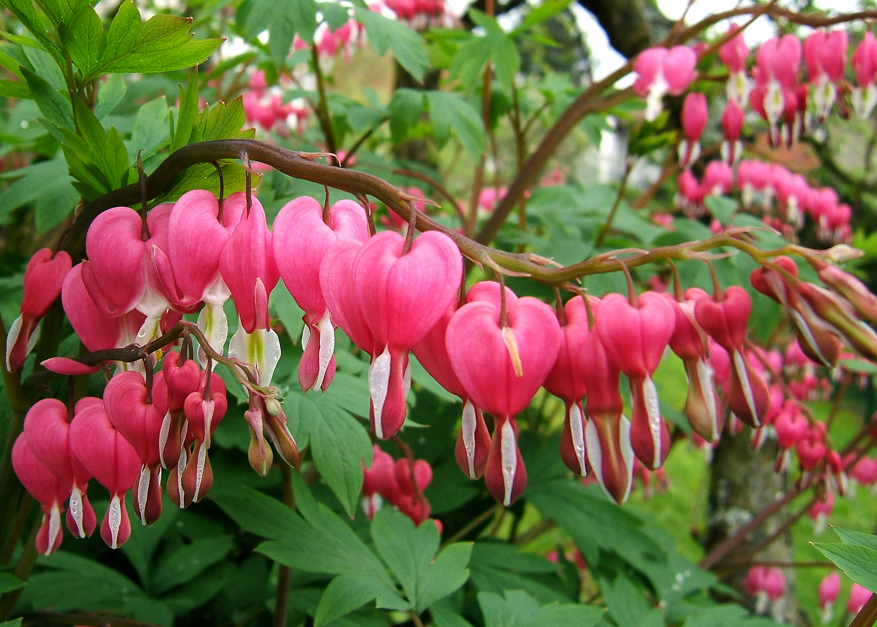 Venus's car, bleeding heart, or lyre flower